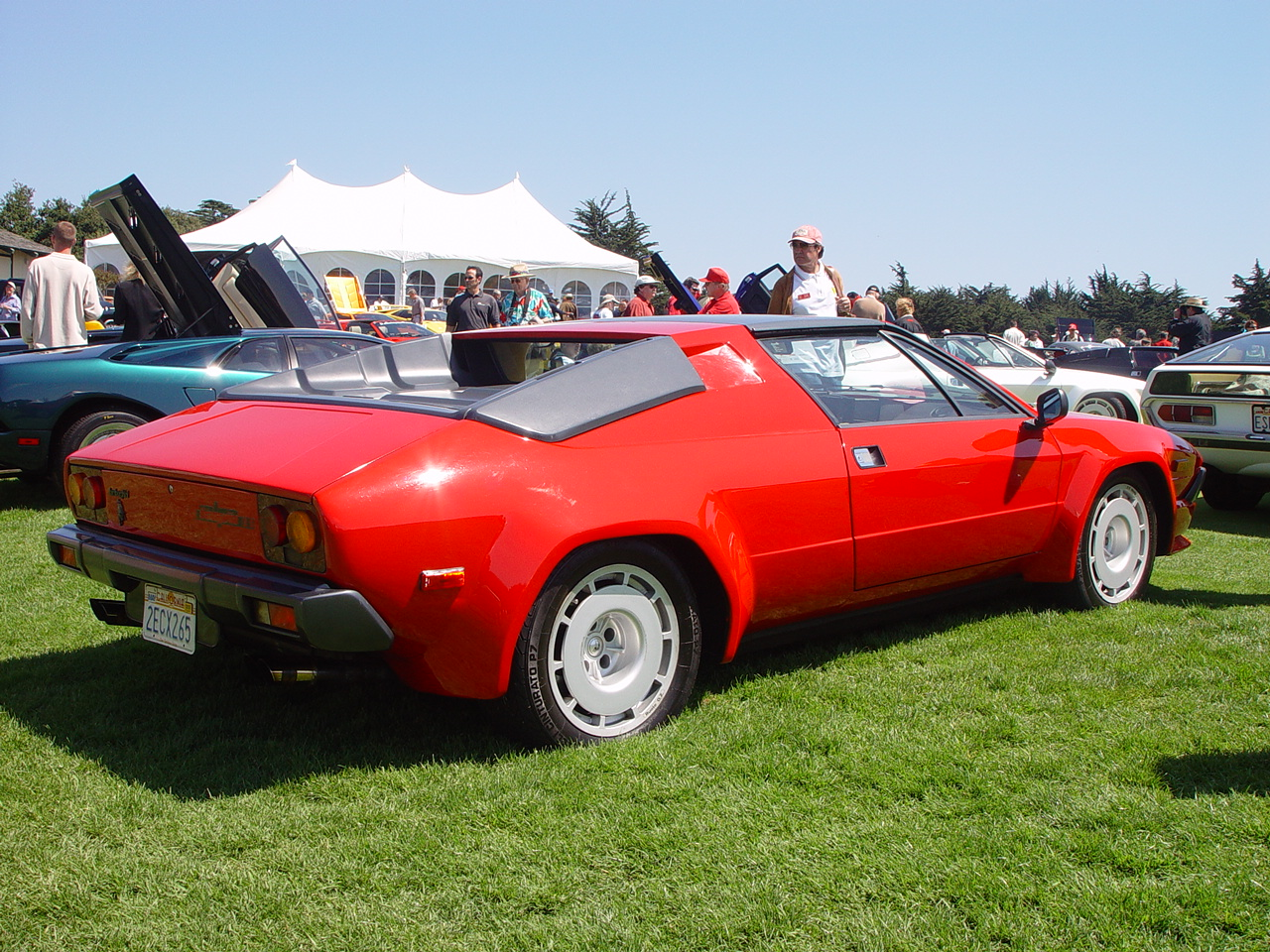 Lamborghini Jalpa. Photograph taken at 2004 Concorso Italiano.